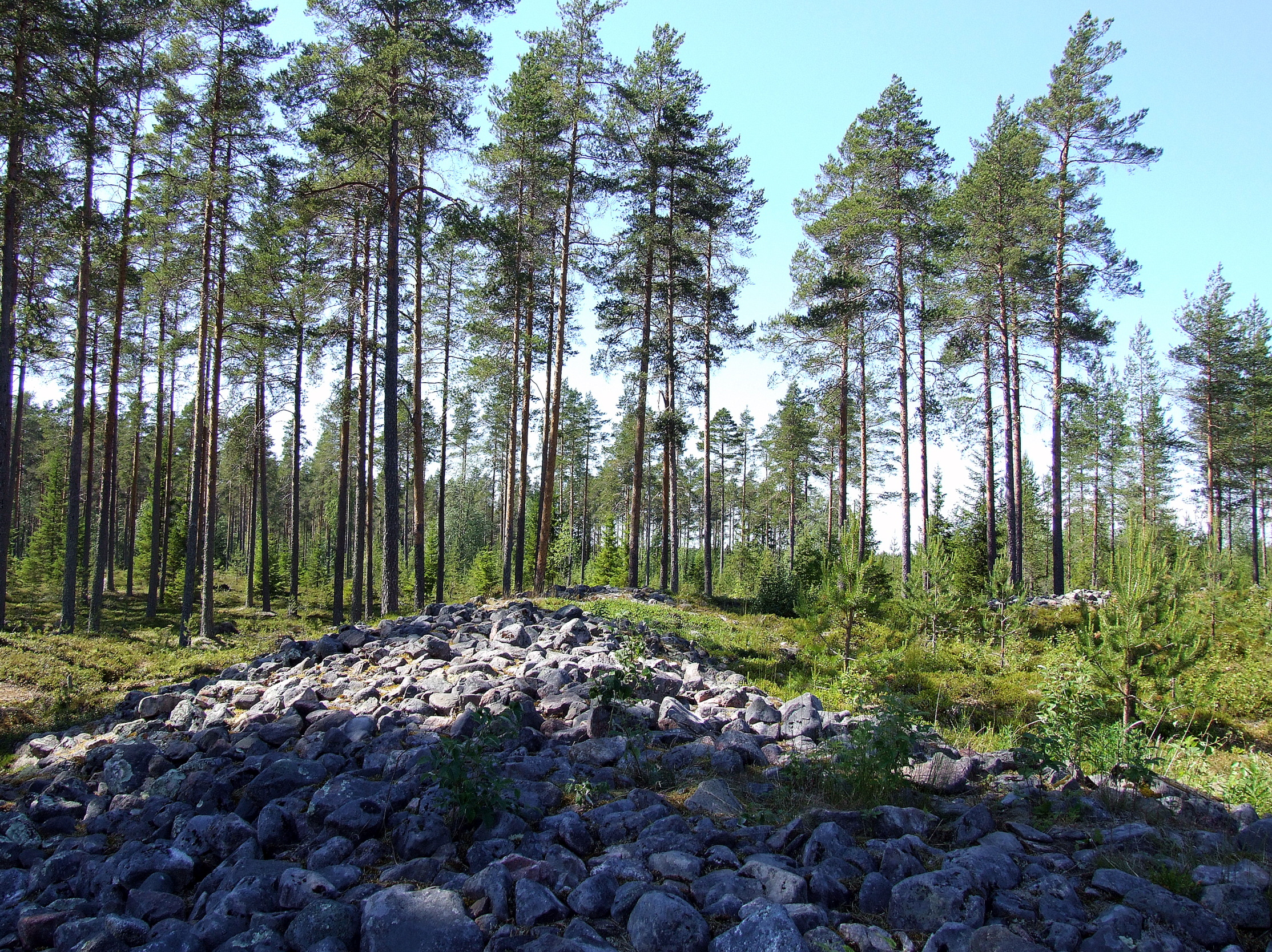 Kastelli "Giant's Church" is a large Stone Age ruin at Linnankangas, Raahe, Finland. The rectangular rampart measures 36 x 62 meters. It was built at about 2000 BC.